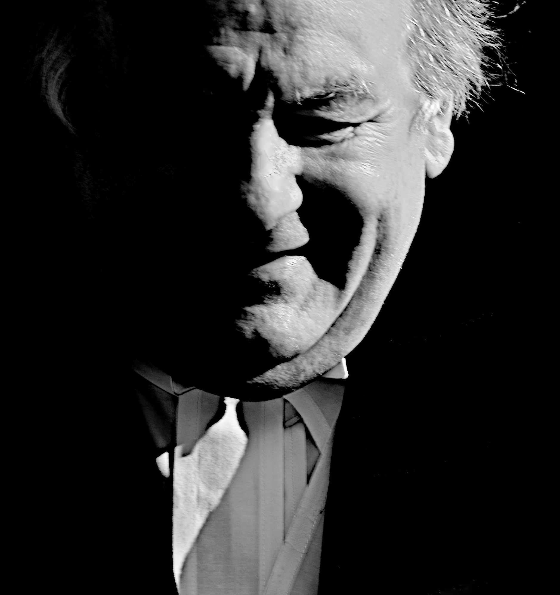 Michael John Martin MP was the Speaker of the House of Commons in the United Kingdom.